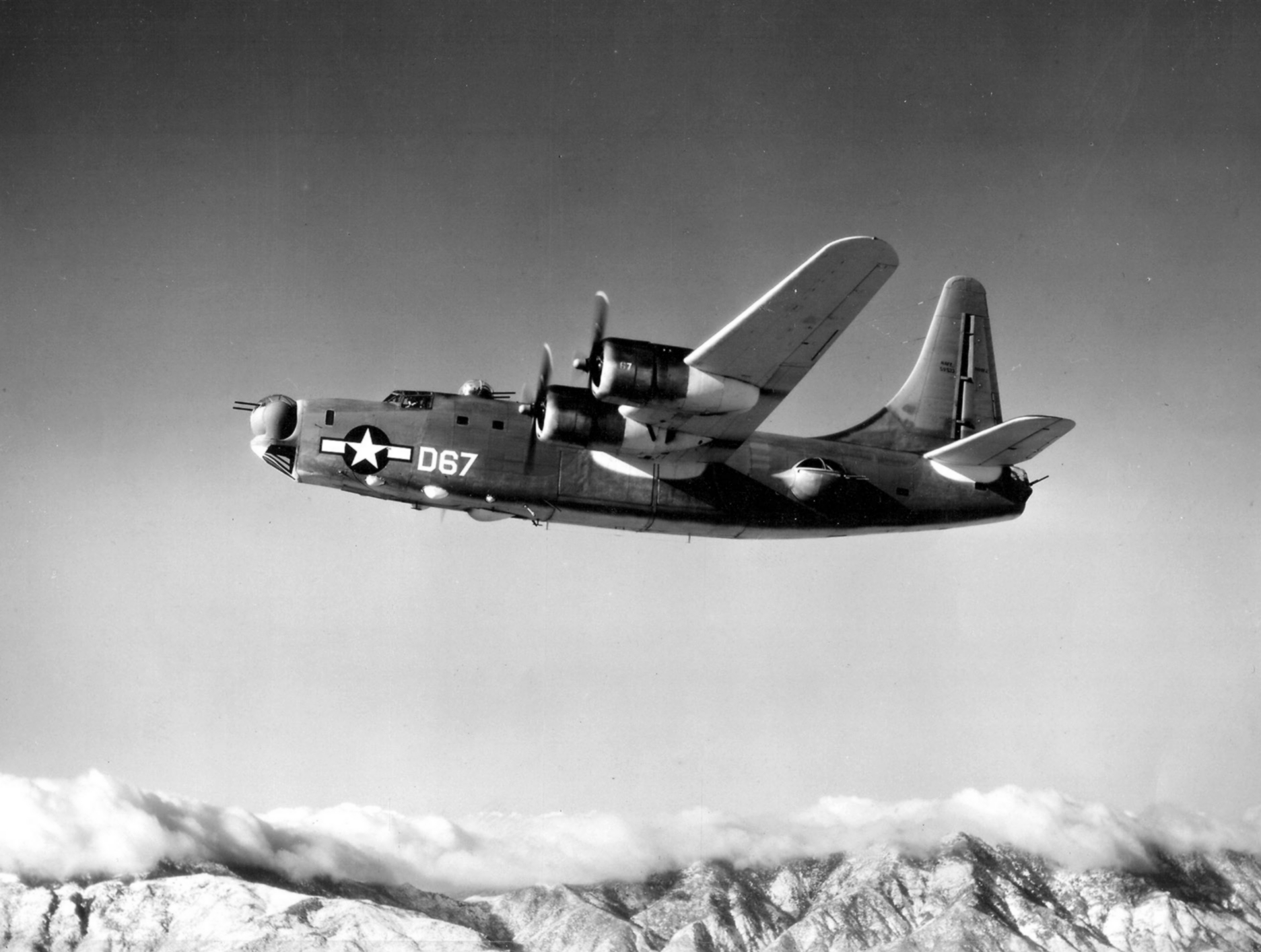 A U.S. Navy Consolidated PB4Y-2 Privateer (BuNo 59533) of heavy patrol squadron (landplane) VP-HL-3 in 1946/47. The squadron was established as bombing squadron VB-138 on 15 March 1943. It was redesignated VPB-138 (1 October 1944), VPB-124 (15 December 1945), VP-124 (15 March 1946), and VP-HL-3 (15 November 1946). It was disestablished on 22 May 1947.